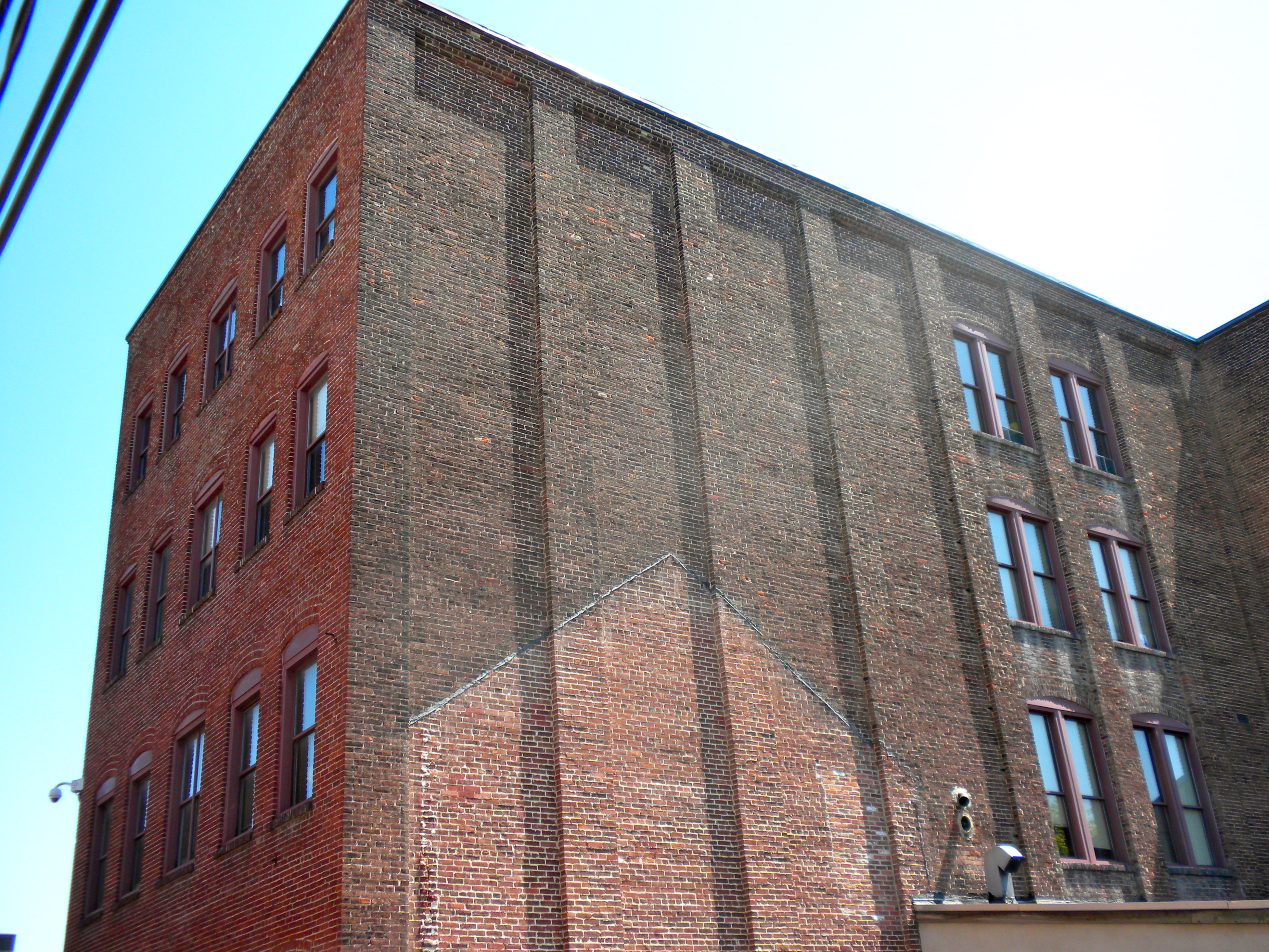 Conestoga Cork Works Building on the NRHP since March 28, 1996. At 215–235 East Fulton Street, near Musser Park, in Lancaster city, Pennsylvania